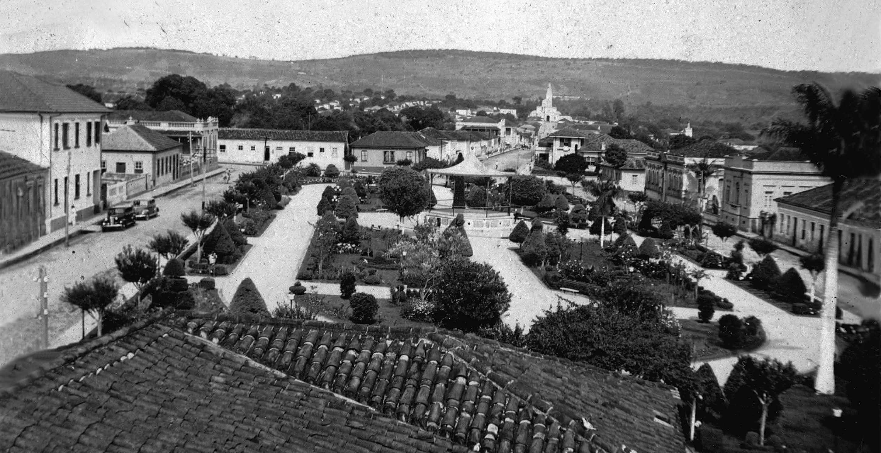 The Jardim Velho in the 20´ies, Monte santo de Minas, Brazil